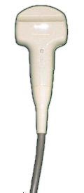 Curved Array Transducer for Sonography